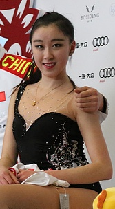 Song Linshu and Sun Zhuoming - 2016 Cup of China